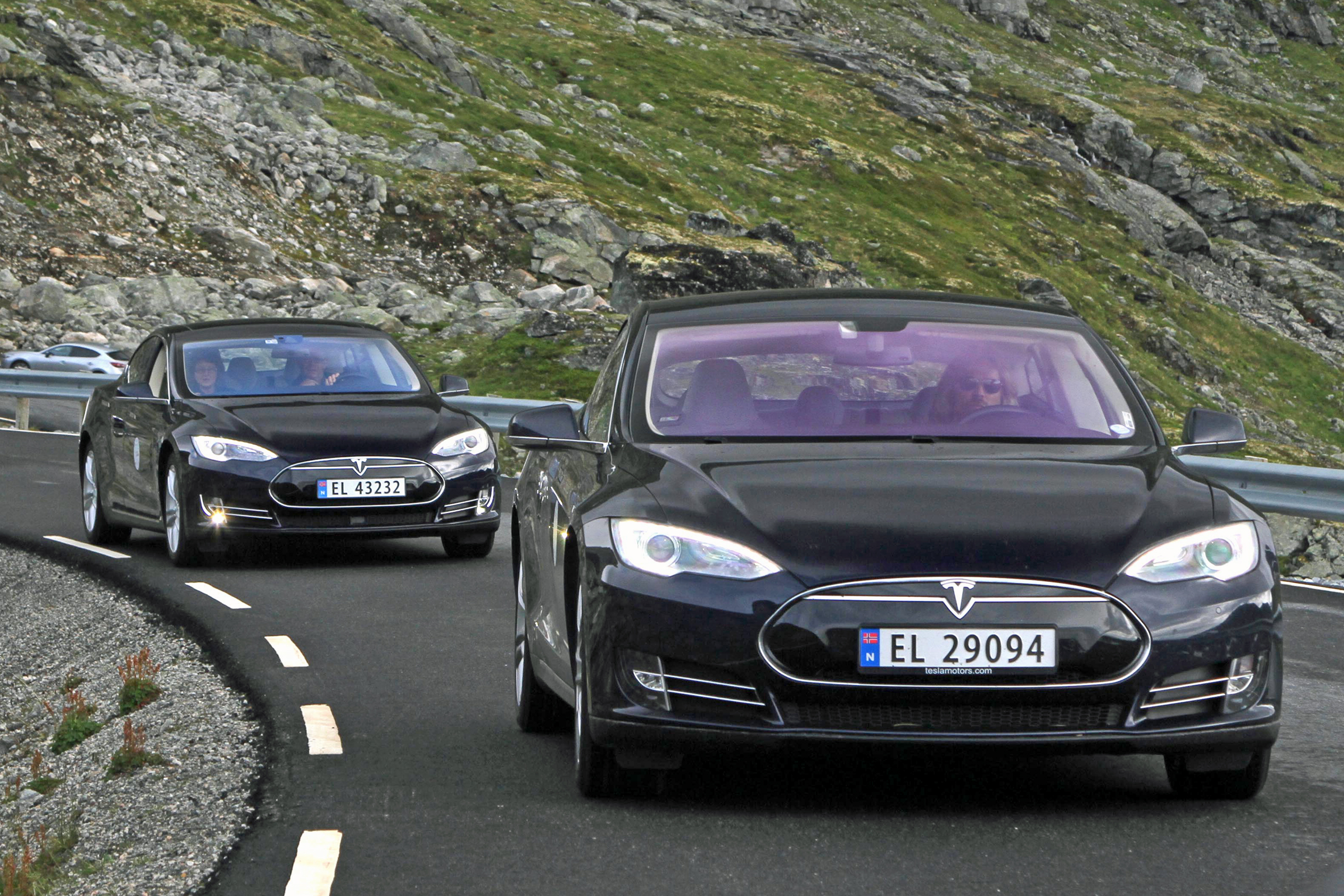 Two Tesla Model S cars participating in the 2015 EV Festival in Geiranger, Norway